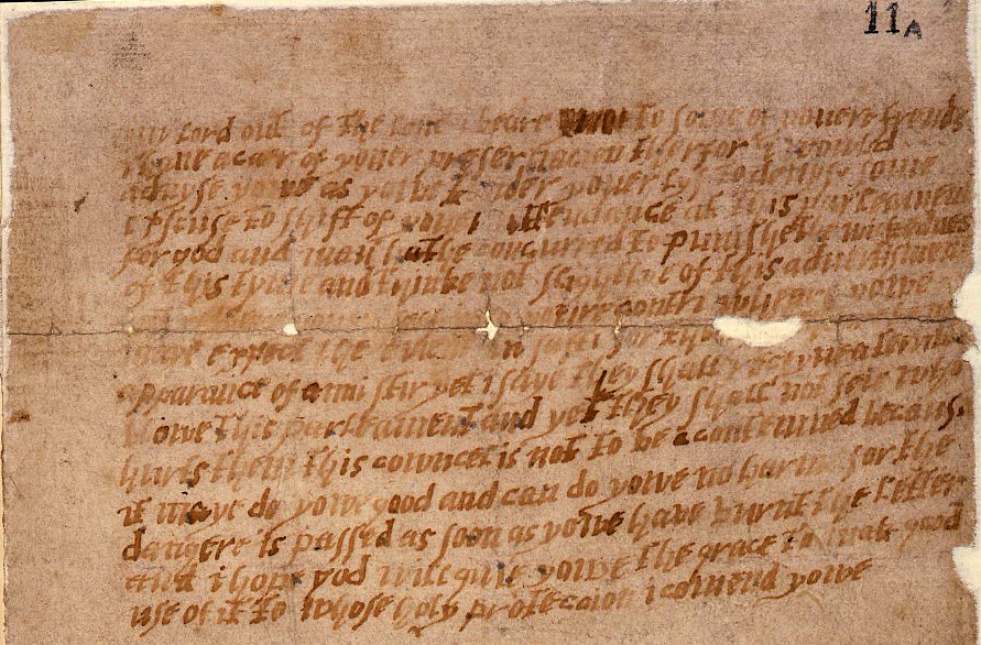 The letter sent to Lord Monteagle a few days before parliament warning him of an attack